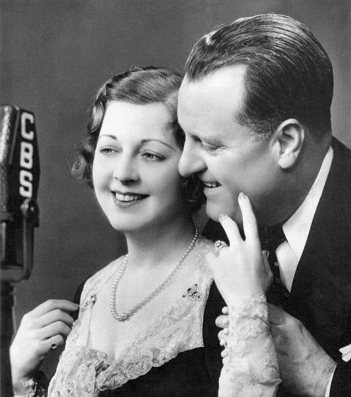 Photo of husband and wife Julia Sanderson and Frank Crumit. The couple hosted Columbia Radio Playhouse.